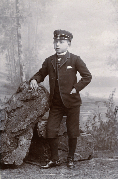 John Bauer, Swedish artist, photographed in third grade.